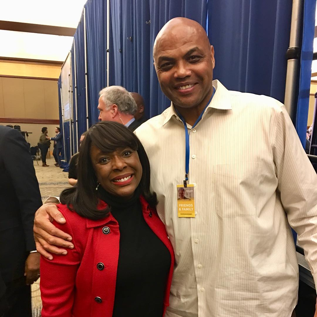 Two proud Alabamians honored to welcome Alabama Senator-elect Doug Jones to the US Senate! #rightsideofhistory